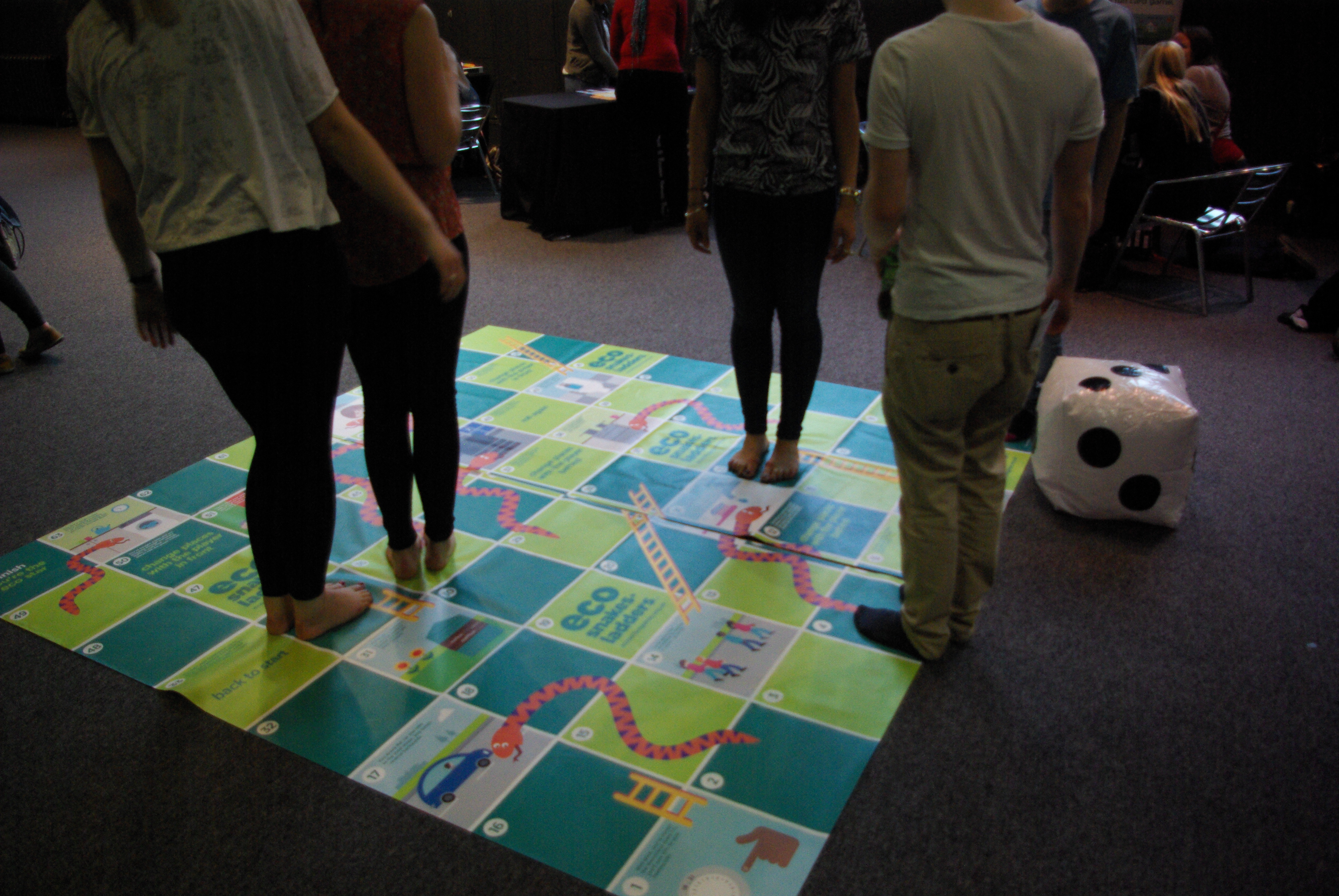 Gamification techniques picture